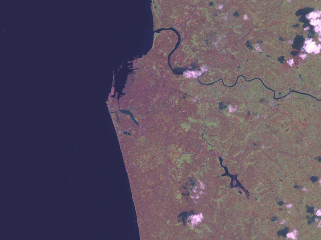 Colombo